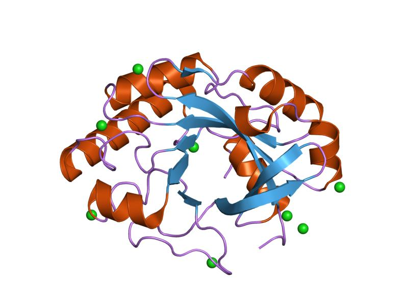 Cartoon representation of the molecular structure of protein registered with 1jfx code.